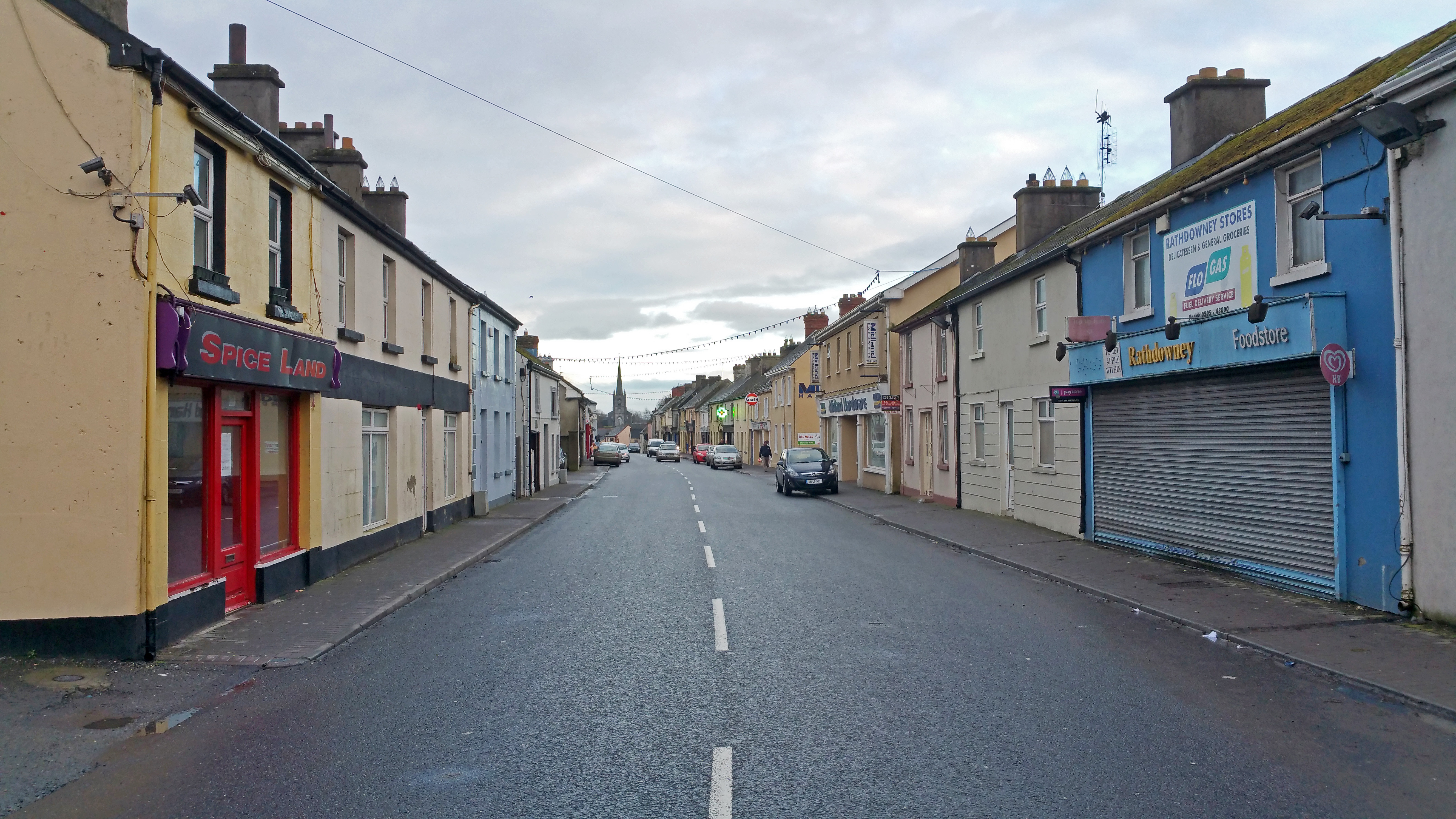 View of Main Street,Rathdowney, County Laois, Ireland